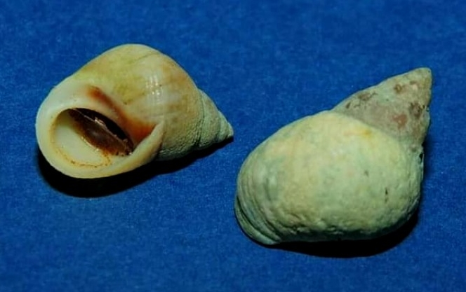 Seashells of the intertidal mollusc Littoraria flava (P. P. King, 1832)[1], collected in Ubatuba, São Paulo, Brazil, in the 1990s.